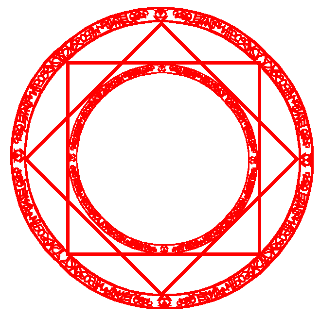 the Red Magic Circle